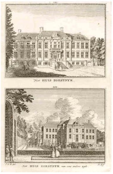 Soestdijk before the wings were added